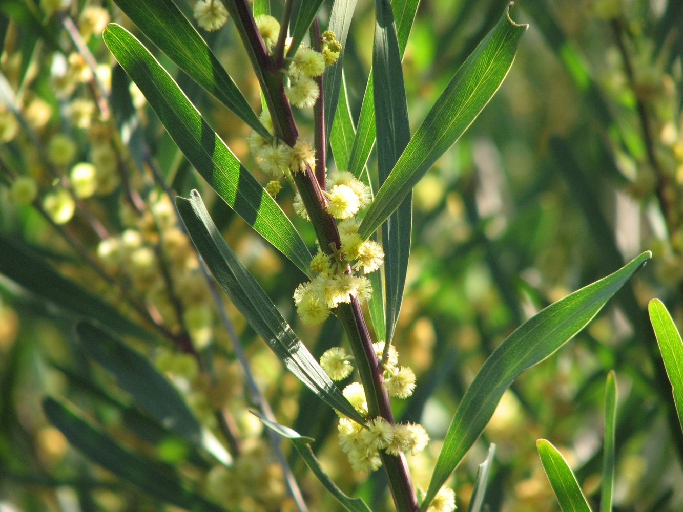 Acacia stricta (cultivated, labelled), Geelong Botanic Gardens, Victoria, Australia